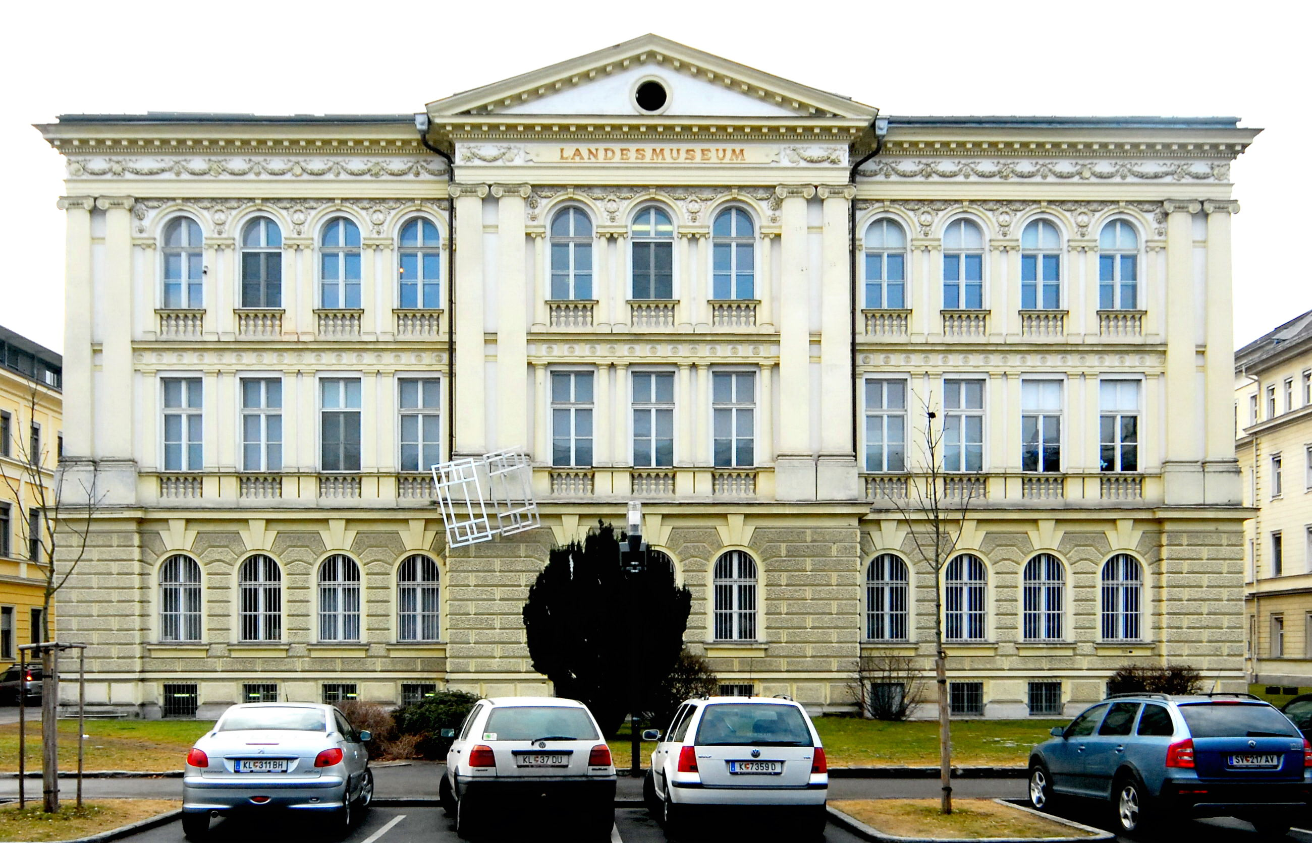 Landesmuseum on the Musemsgasse #2, inner city of Klagenfurt, capital of the state Carinthia / Austria / EU